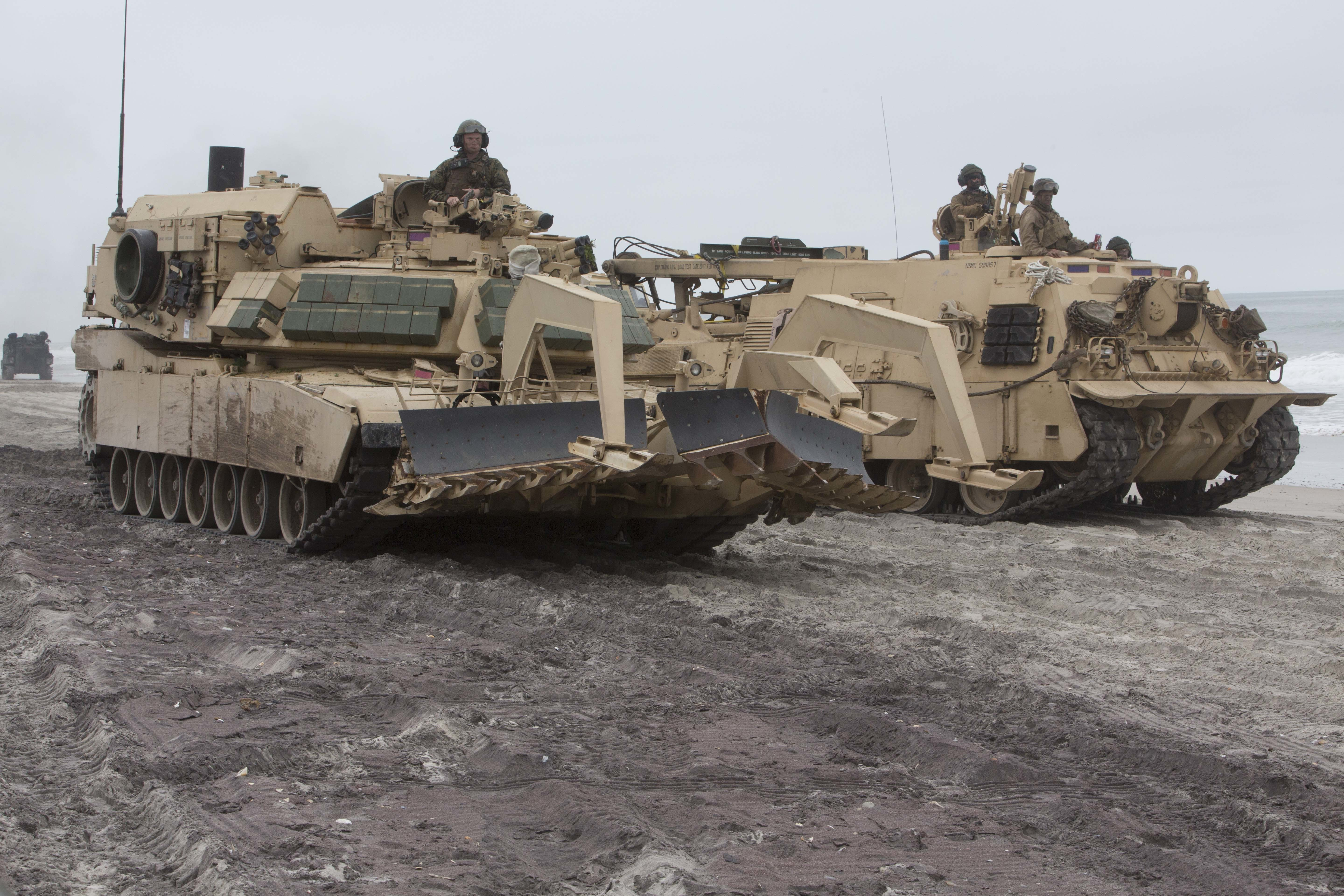 M1150 Assault Breacher Vehicle and M88A2 Hercules maneuver on Camp Lejeune, N.C., Mar. 17, 2020, during Type Commander Amphibious Training. The purpose of TCAT is for the 24th Marine Expeditionary Unit and participating elements to exercise expeditionary command and control and rehearse amphibious operations. The ABVs are with 2nd Combat Engineer Battalion, 2nd Marine Division. (U.S. Marine Corps photo by Staff Sgt. Mark E Morrow Jr/Released)